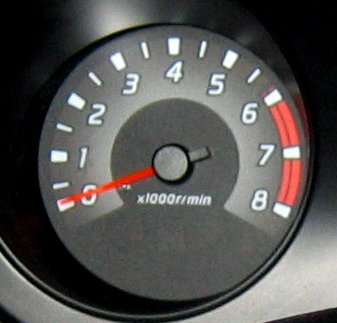 Picture of the tachometer of a 2002 Nissan Xterra.